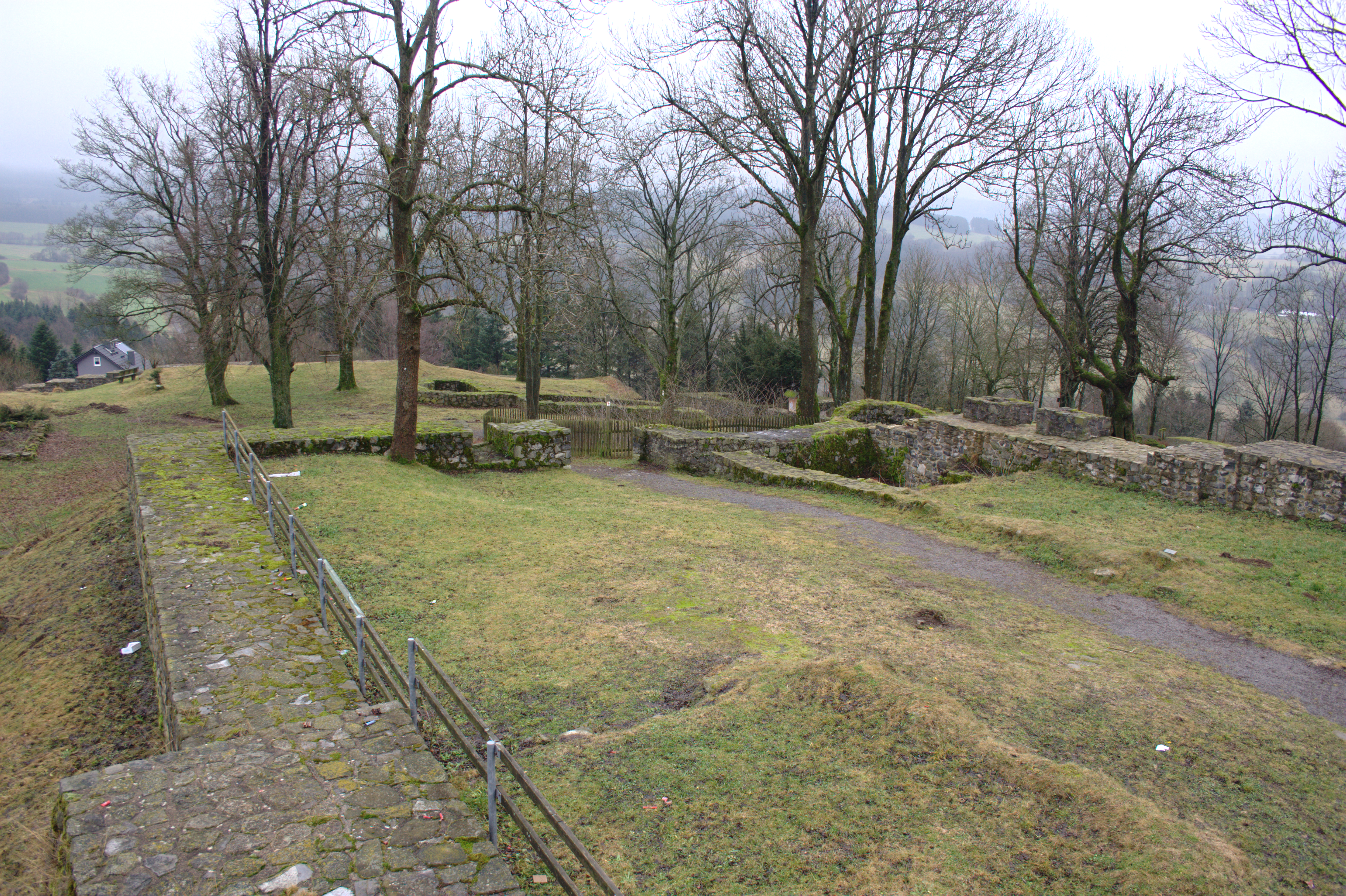 Burg in Ulrichstein (looking south), Hesse, Germany